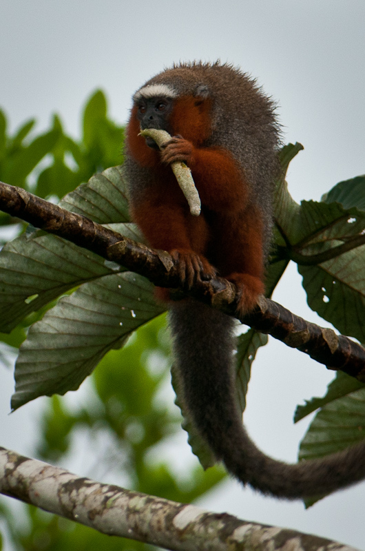 White-tailed titi (Callicebus discolor) in Equador.